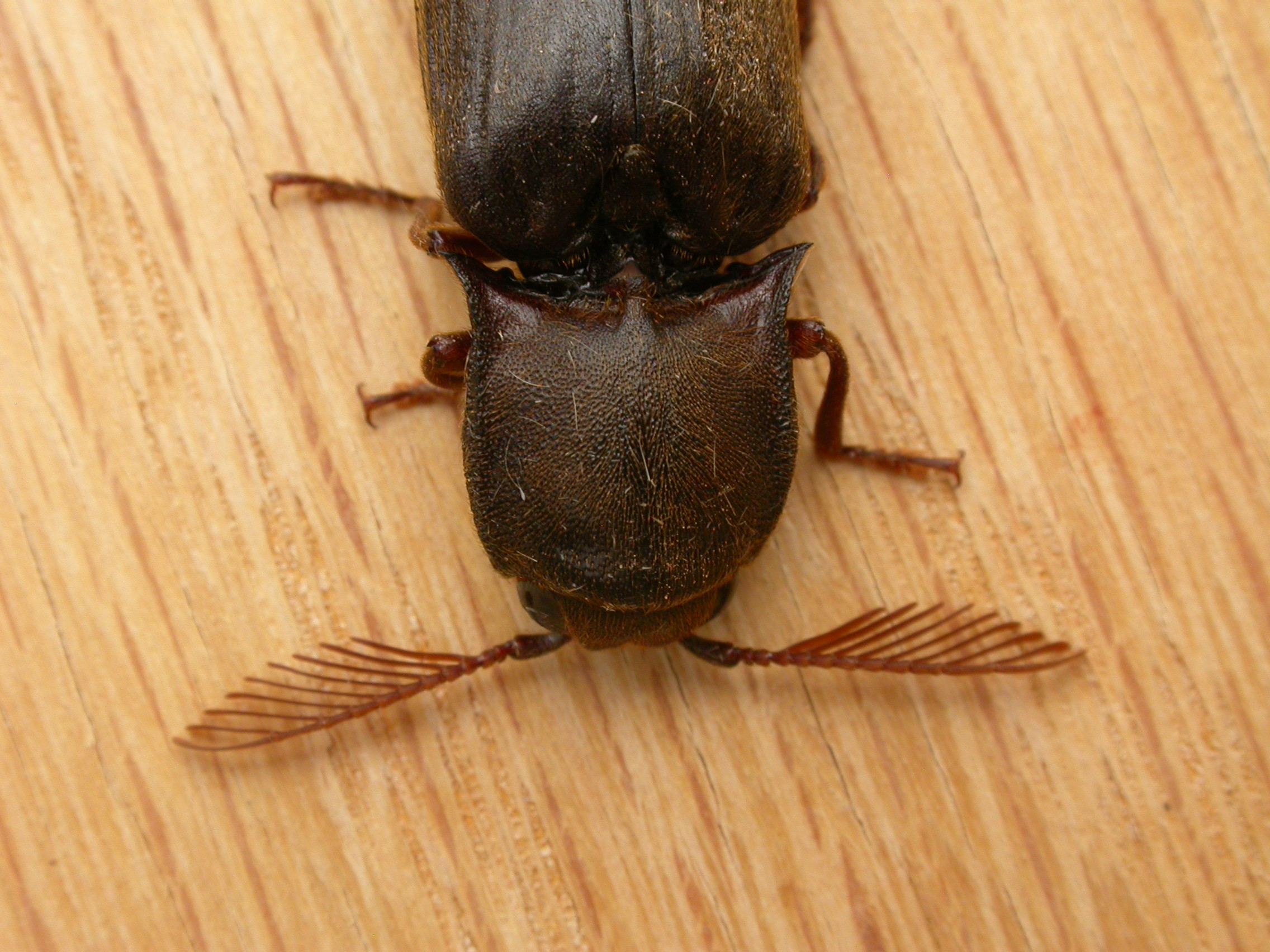 Pseudotetralobus australasiae (Gory, 1836), to MV light, Aranda, ACT, 24/25 January 2009